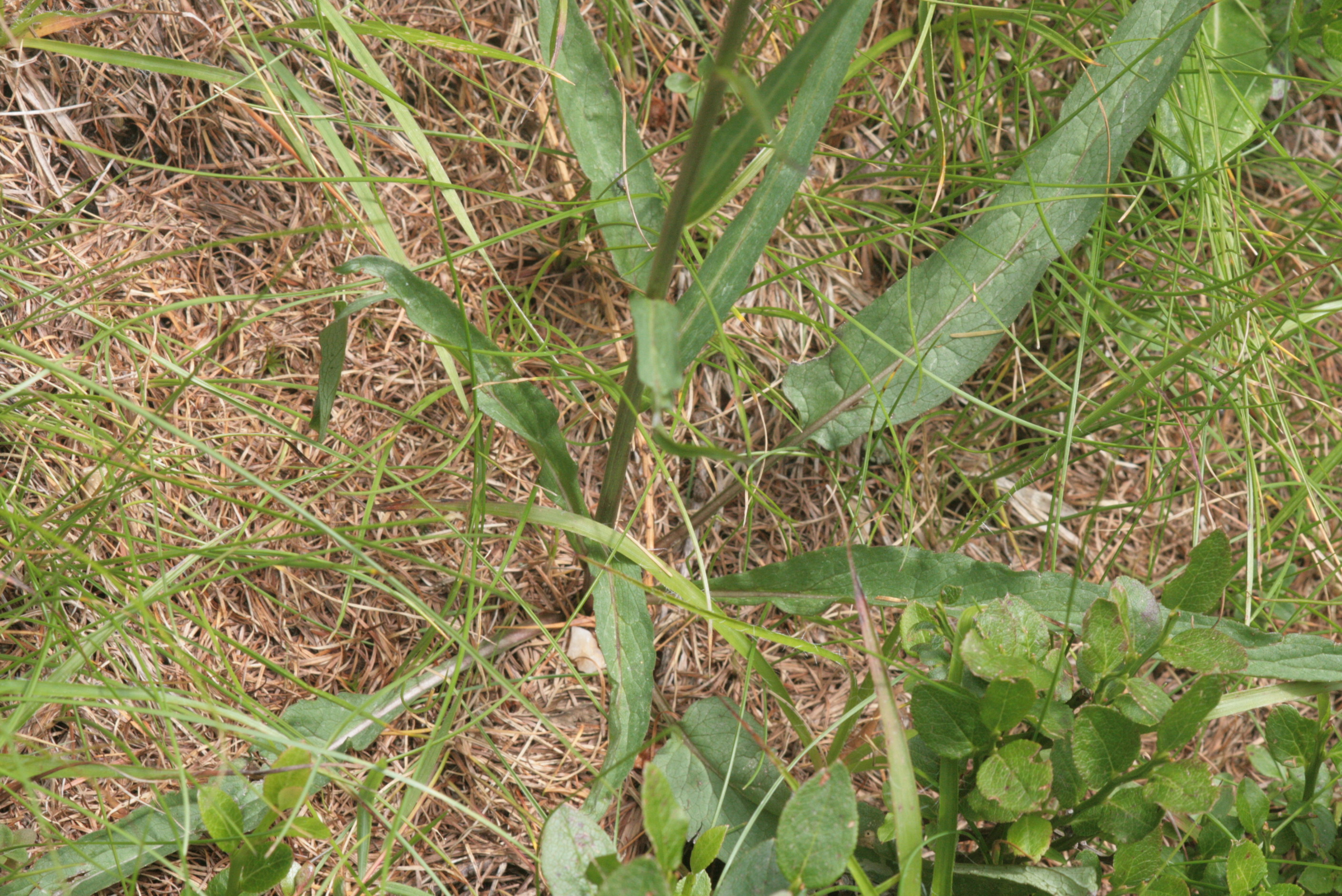 Phyteuma persicifolium